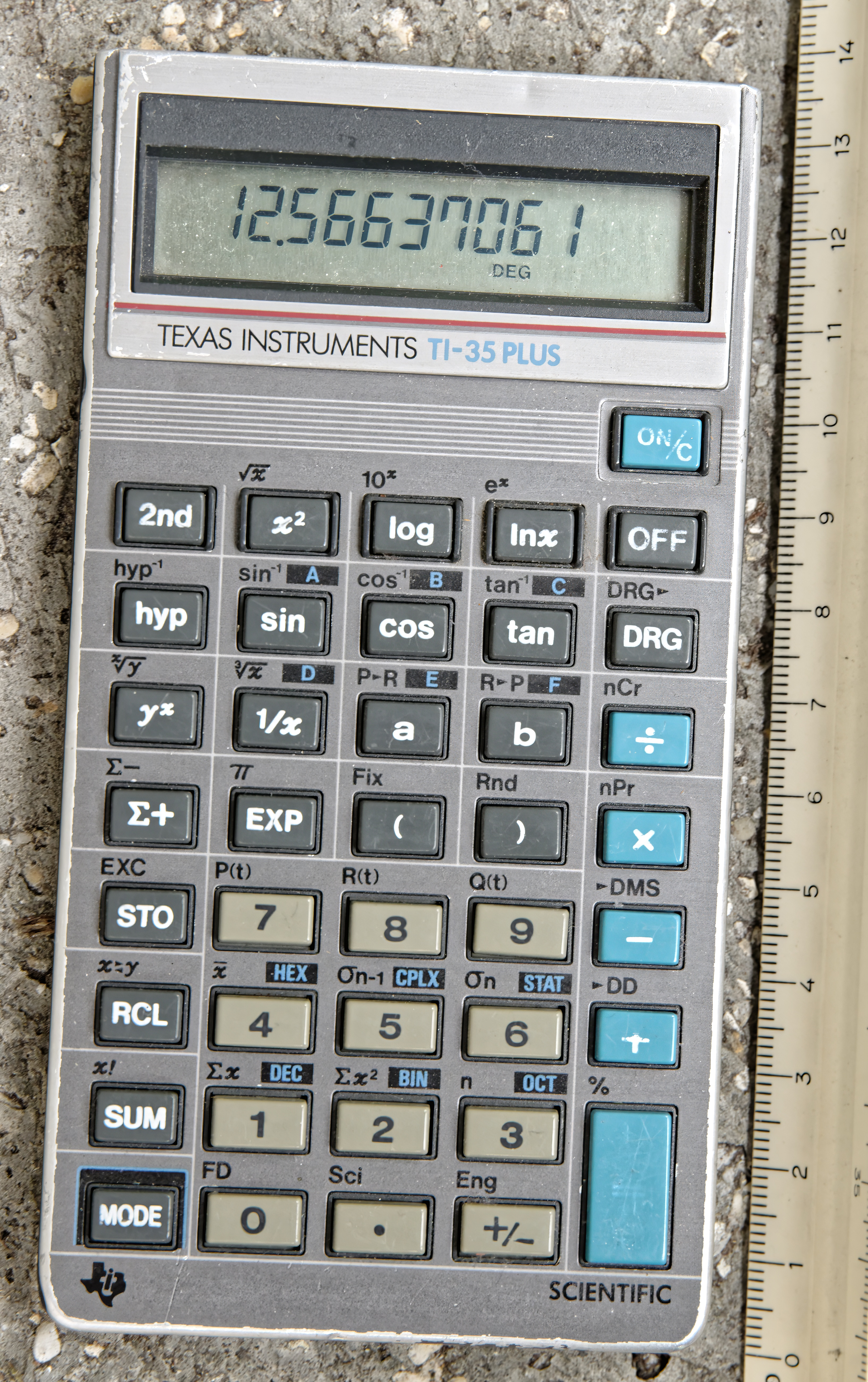 Texas Instruments TI-35 plus calculator